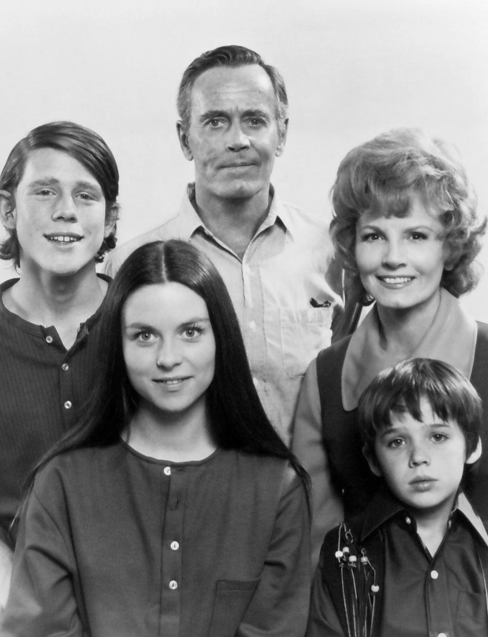 Cast photo from the short-lived television series The Smith Family. Clockwise-Henry Fonda (Chad Smith), Janet Blair (Betty Smith), Michael-James Wixted (Brian Smith), Darleen Carr (Cindy Smith), Ron Howard (Bob Smith).